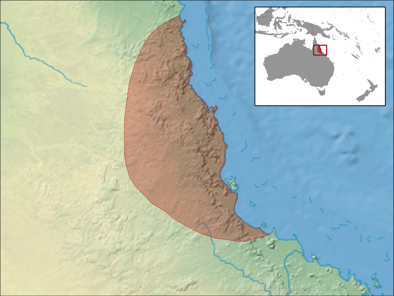 geographic distribution of Carlia rubrigularis